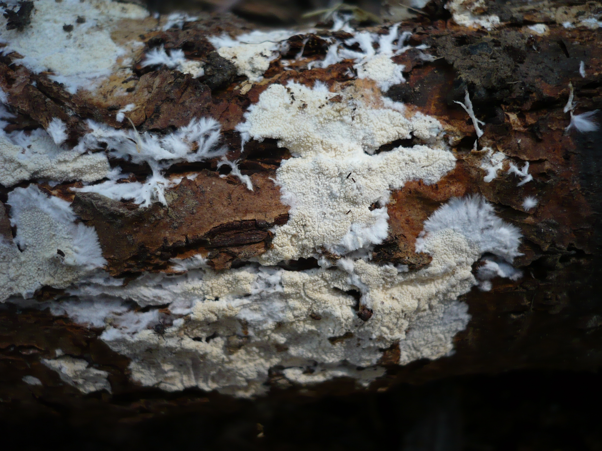 The crust fungus Crustomyces subabruptus. Photographed in Unterschölling-Hirmer Wald, Pöttsching, Bezirk Mattersburg, Burgenland, Austria.